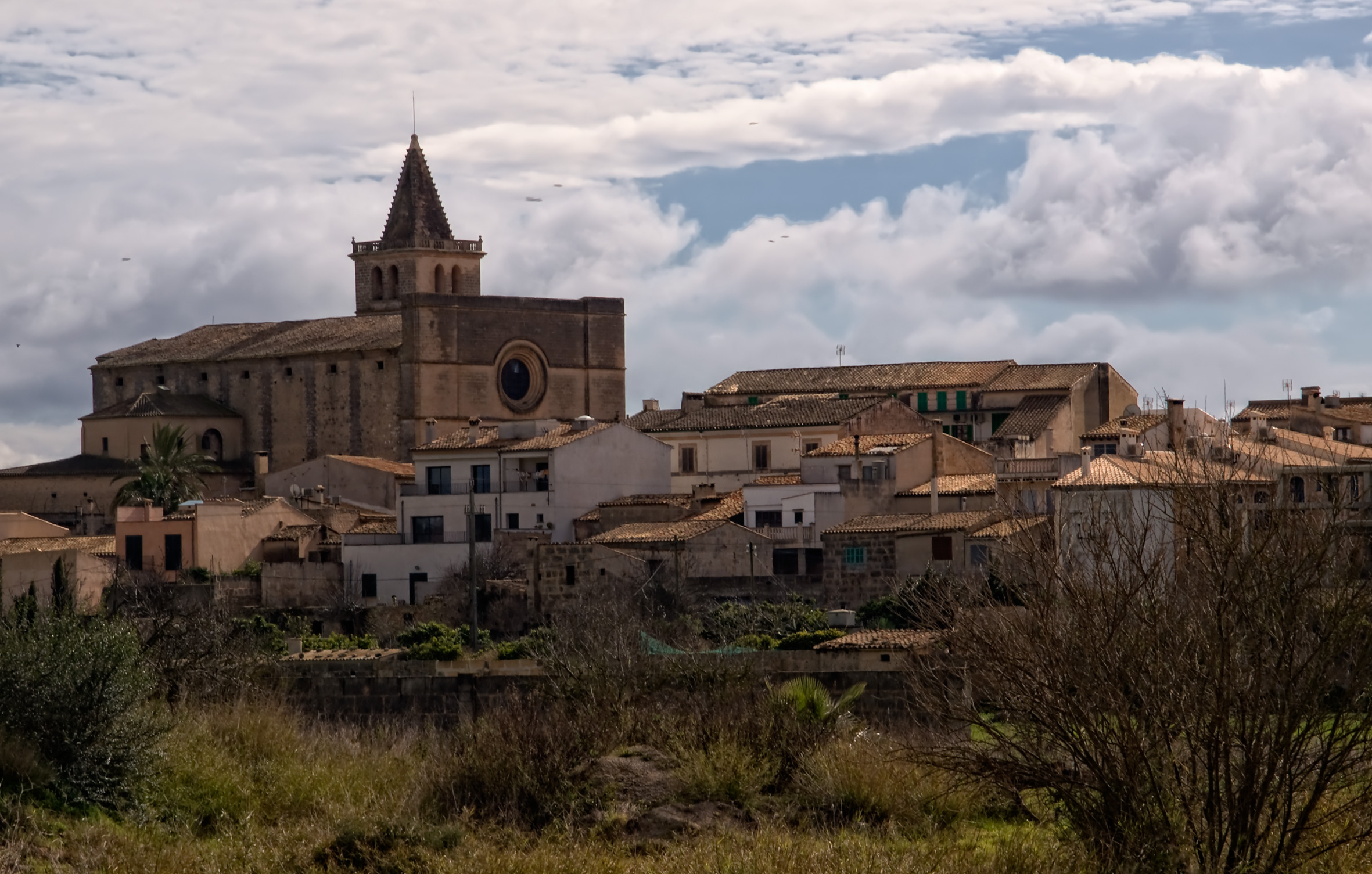 General landscape of Porreres (Mallorca, Spain)